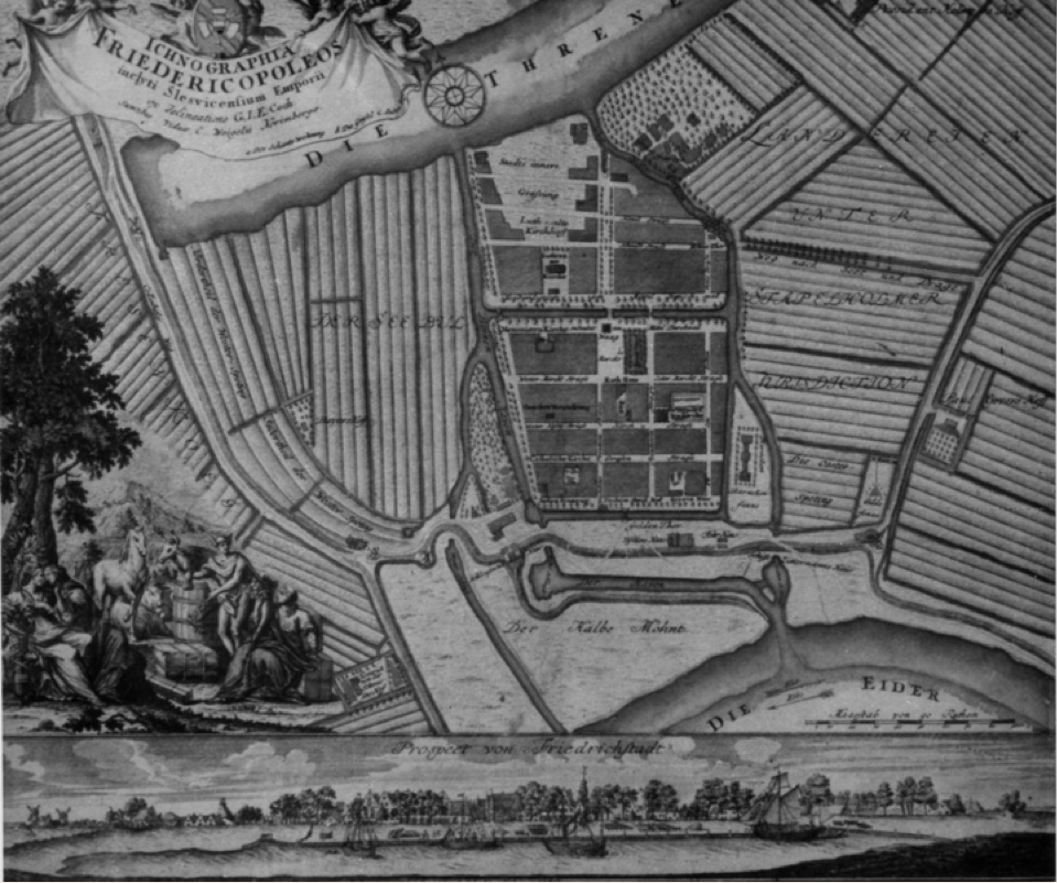 Map of Friedrichstadt about 1750